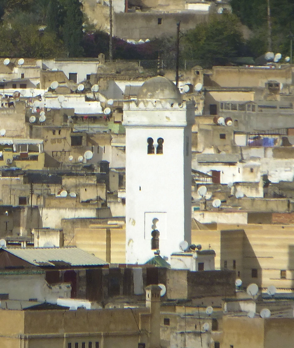 Minaret of the Qarawiyyin Mosque, seen from the south (from afar).